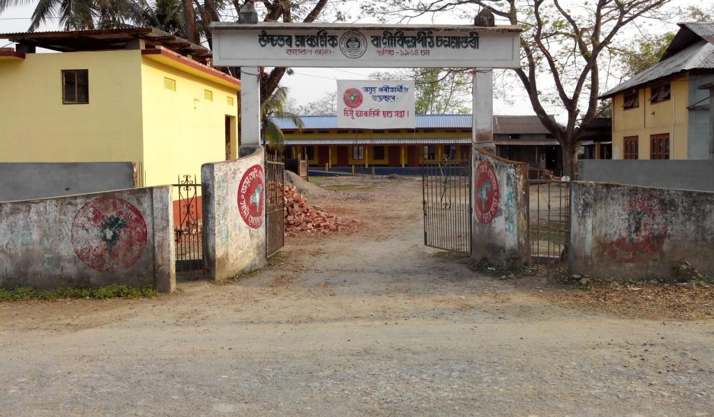 HS bani bidyapith